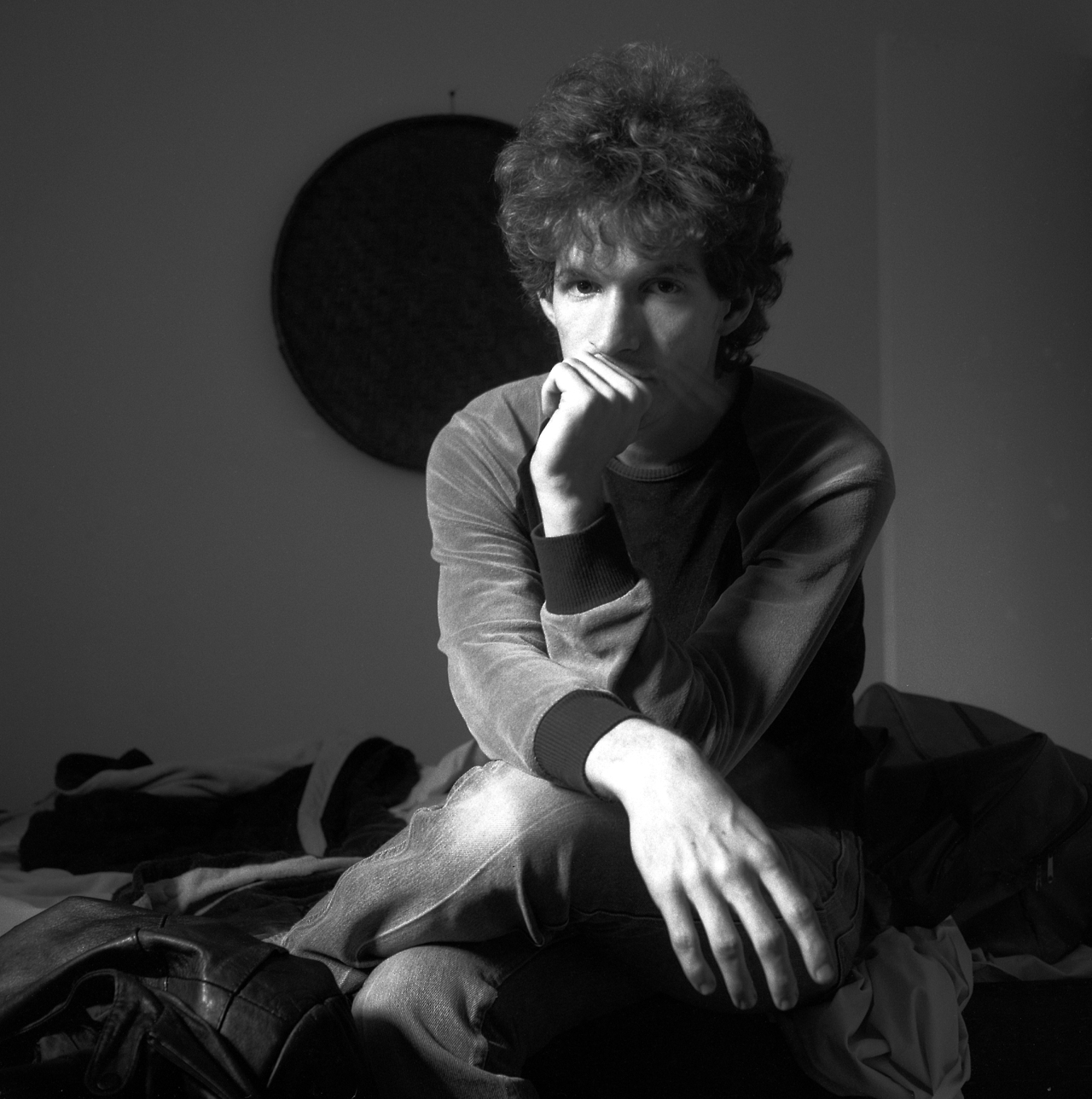 Scott Miller of Game Theory, 1983. Shot in the bedroom of Dave Gill’s Samurai Sound Lab during recording of Game Theory’s EP Distortion.